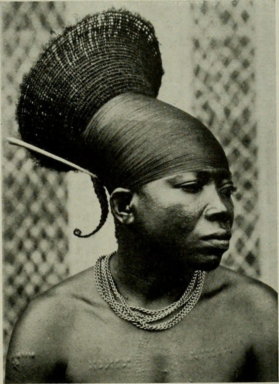 A woman of the Mangbetu tribe. The head is bound with a fine cord made of raffia, banana fiber or hair, while the natural hair is woven into a frame of rattan fiber. This process takes two days to perform. Title: The American Museum journal Year: c1900-(1918) (c190s) Authors: American Museum of Natural History Subjects: Natural history Publisher: New York : American Museum of Natural History